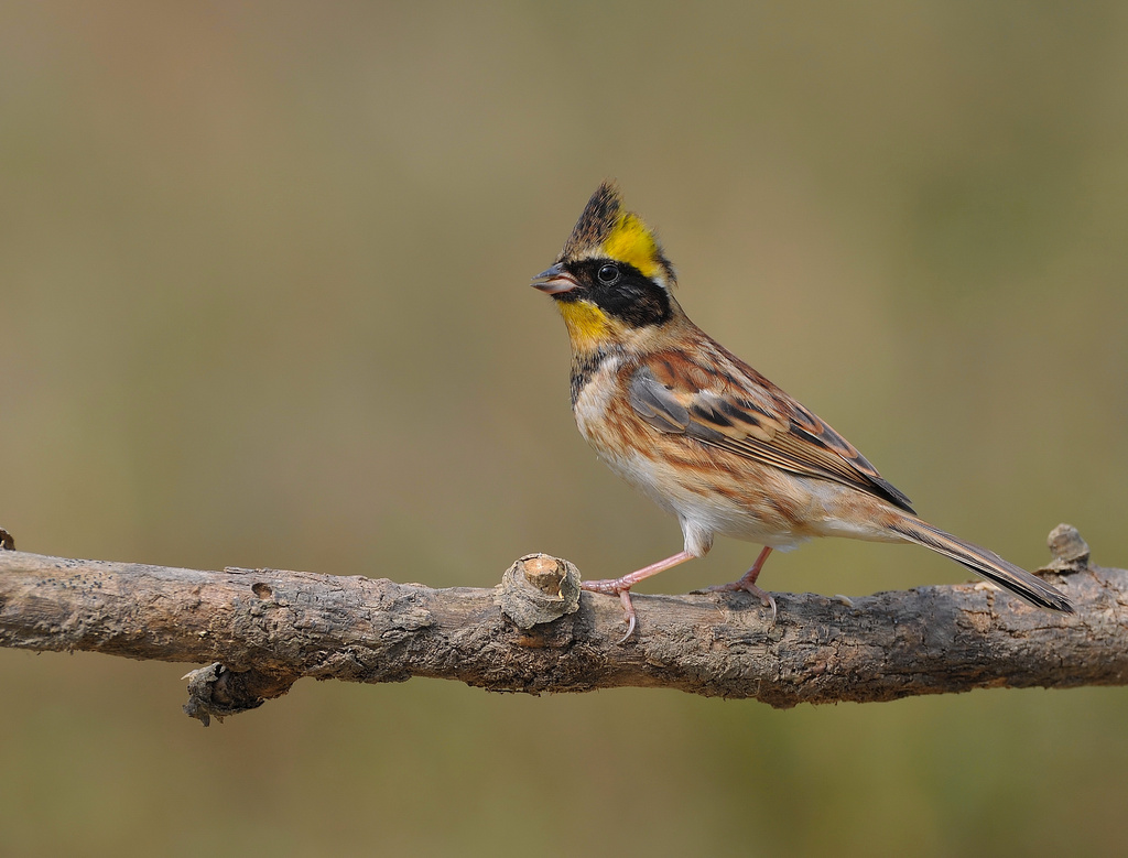 Yellow-throated Bunting - (Emberiza elegans)